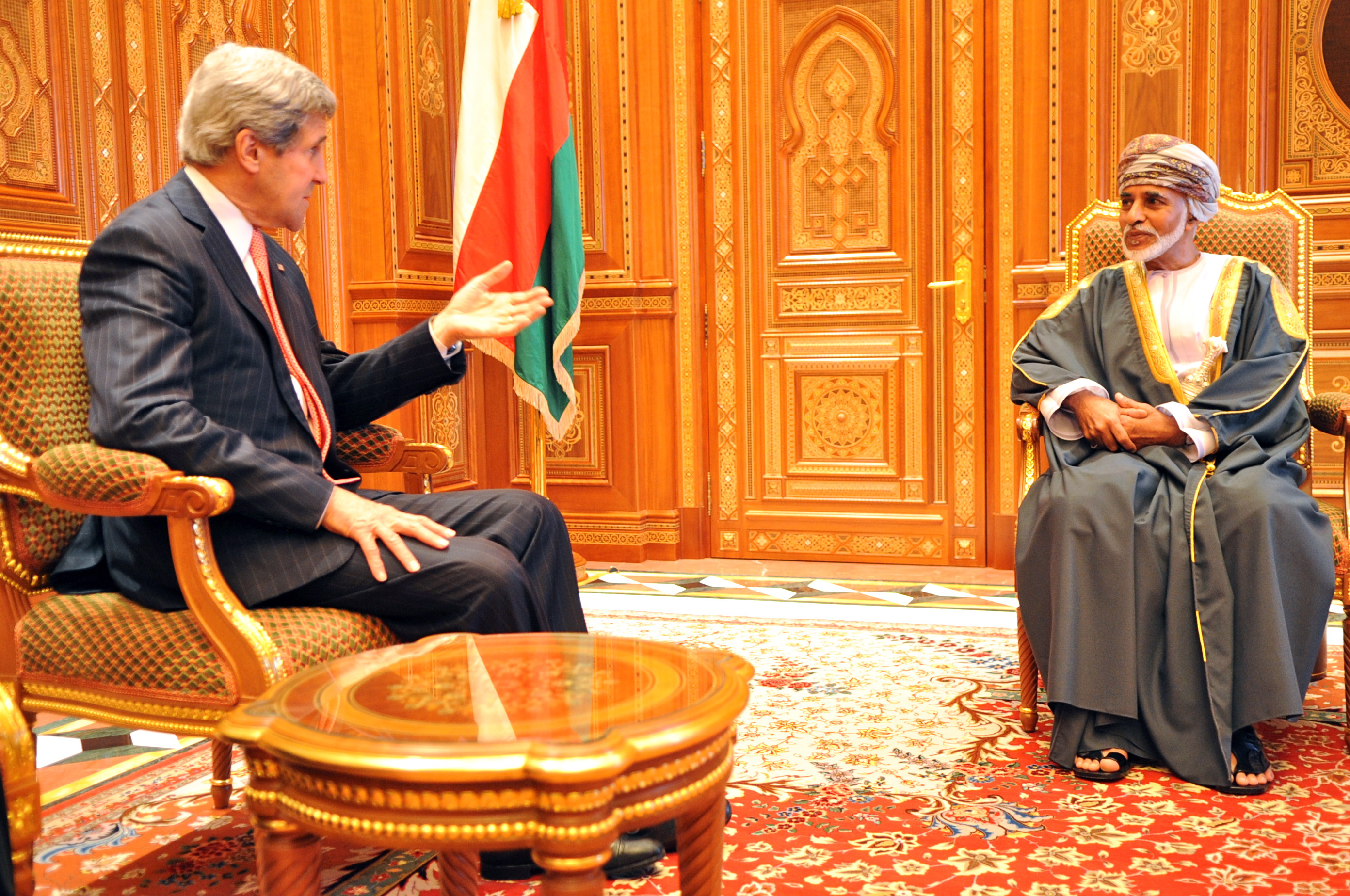 U.S. Secretary of State John Kerry meets with Sultan of Oman Qaboos bin Said Al Said in Muscat, Oman, on May 21, 2013. [State Department photo/ Public Domain]